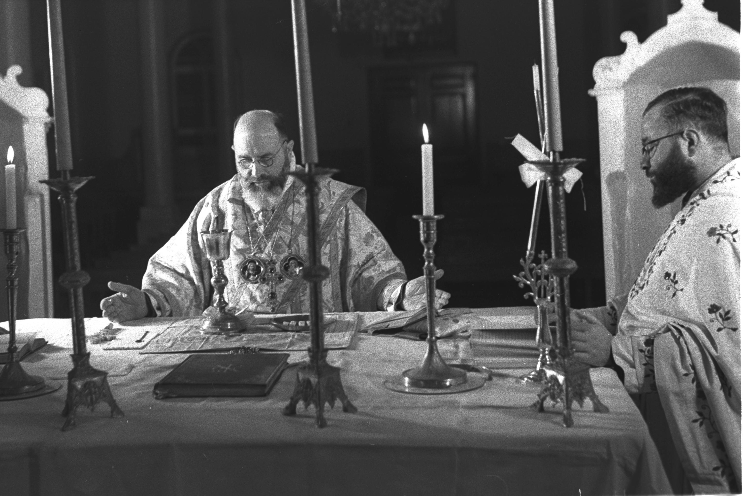 Greek catholic archbishop george hakim, during Christmas services in Haifa (25/12/1957)